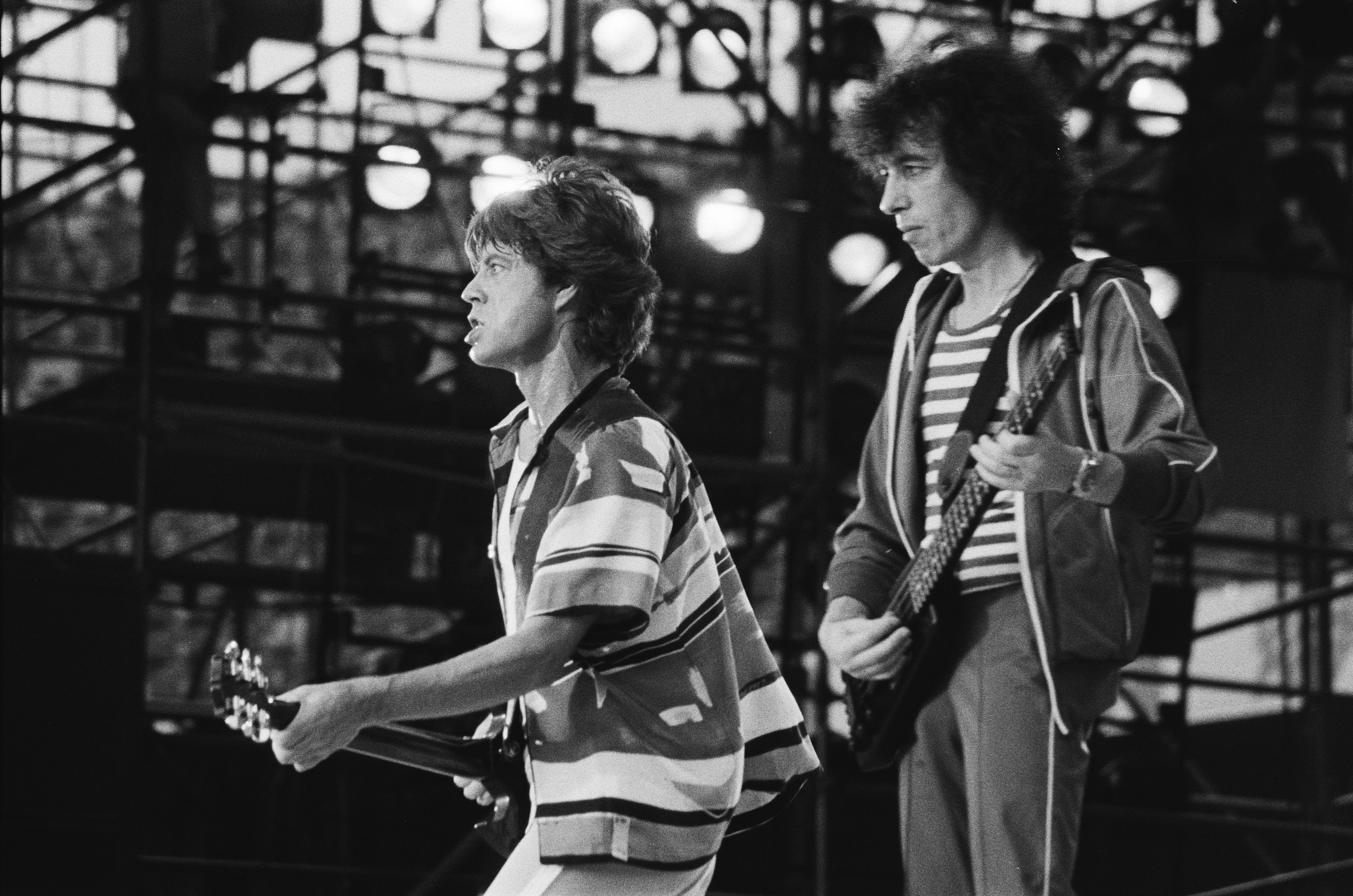 Mick Jagger (guitar) and Bill Wyman (bass) during a concert of the Rolling Stones in De Kuip Rotterdam (NL), 2 June 1982. Photo by Marcel Antonisse, Anefo